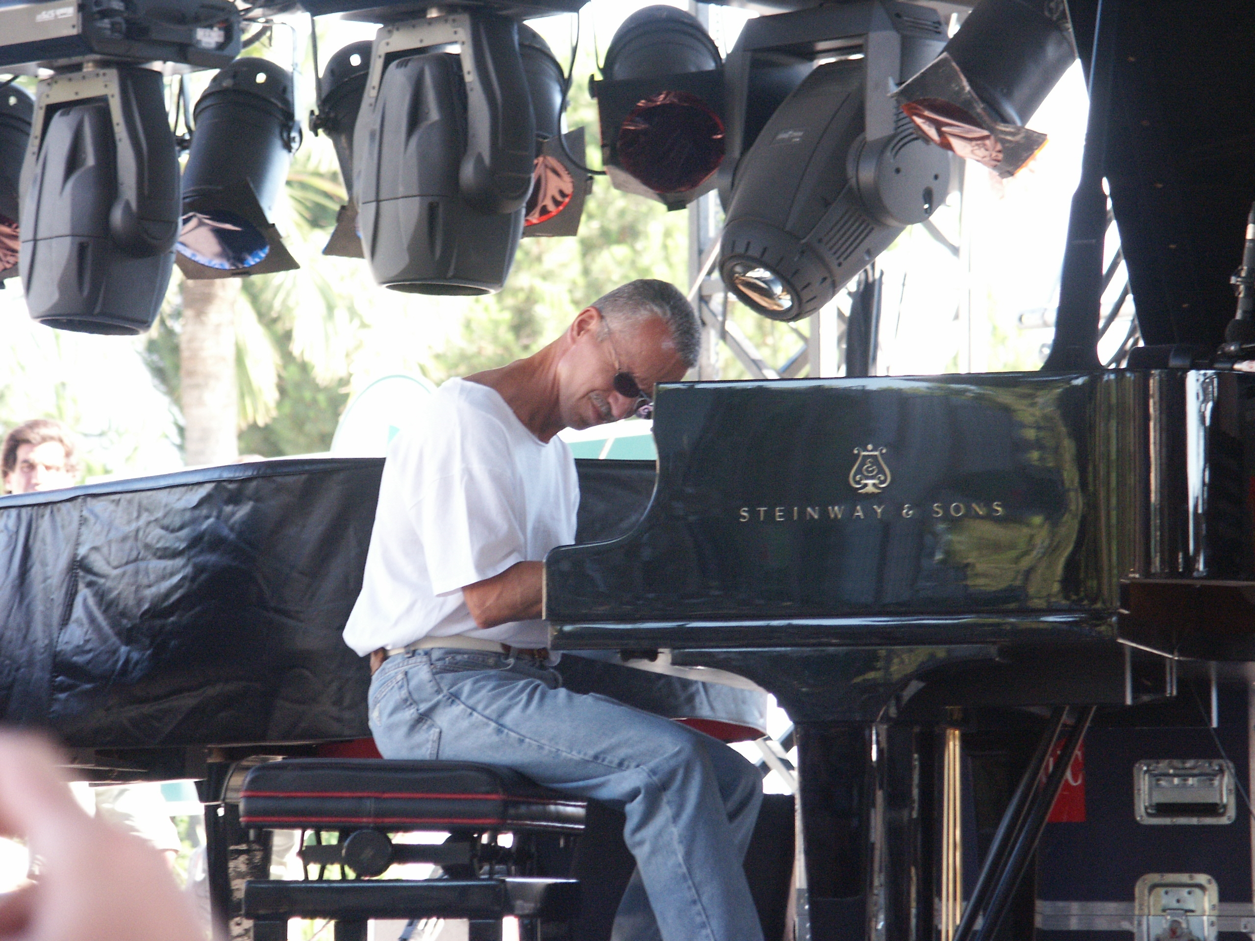 Keith Jarrett playing a Steinway & Sons grand piano during the sound check at the Jazz à Juan festival in Juan-les-Pins, Antibes, France, on 17 July 2003